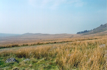 Ysgethin Valley From the track above Llyn Bodlyn. Looking back down the valley towards Craig y Dinas hillfort, which can just be made out on the hill in the background... with a slightly raised pimple on the end.